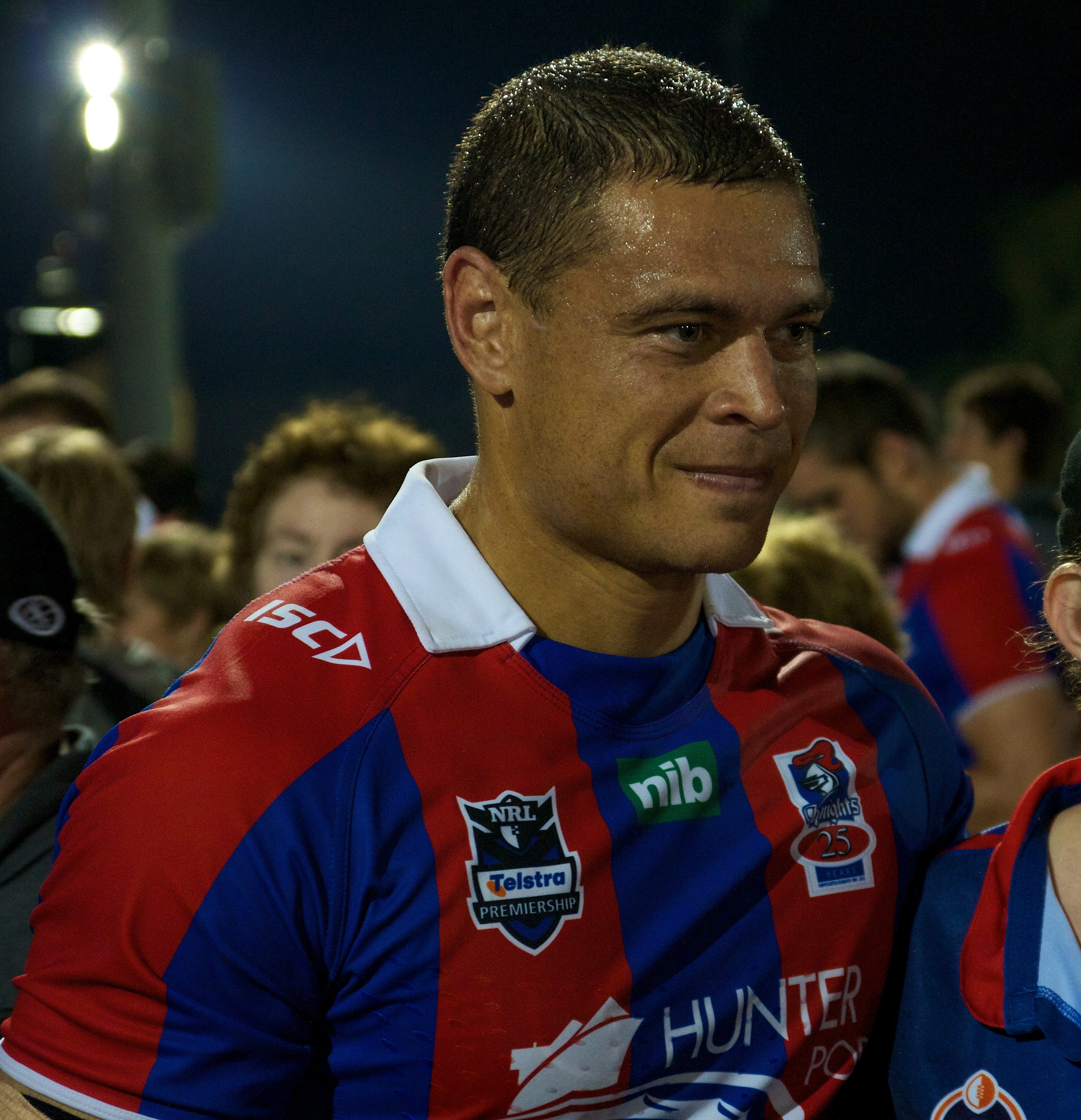 Timana Tahu getting pictures.